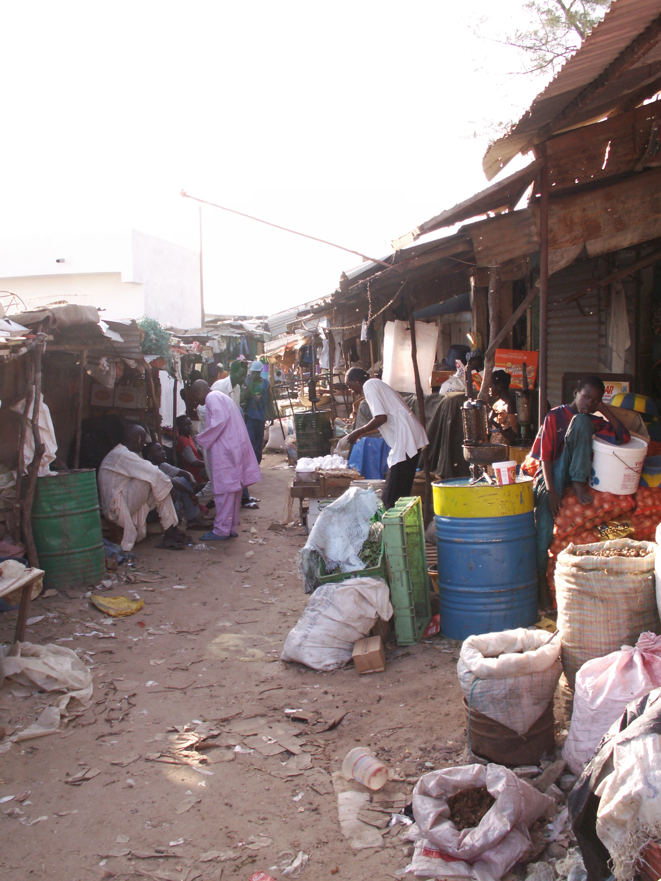 The streets in the vicinity of the port at M'Bour